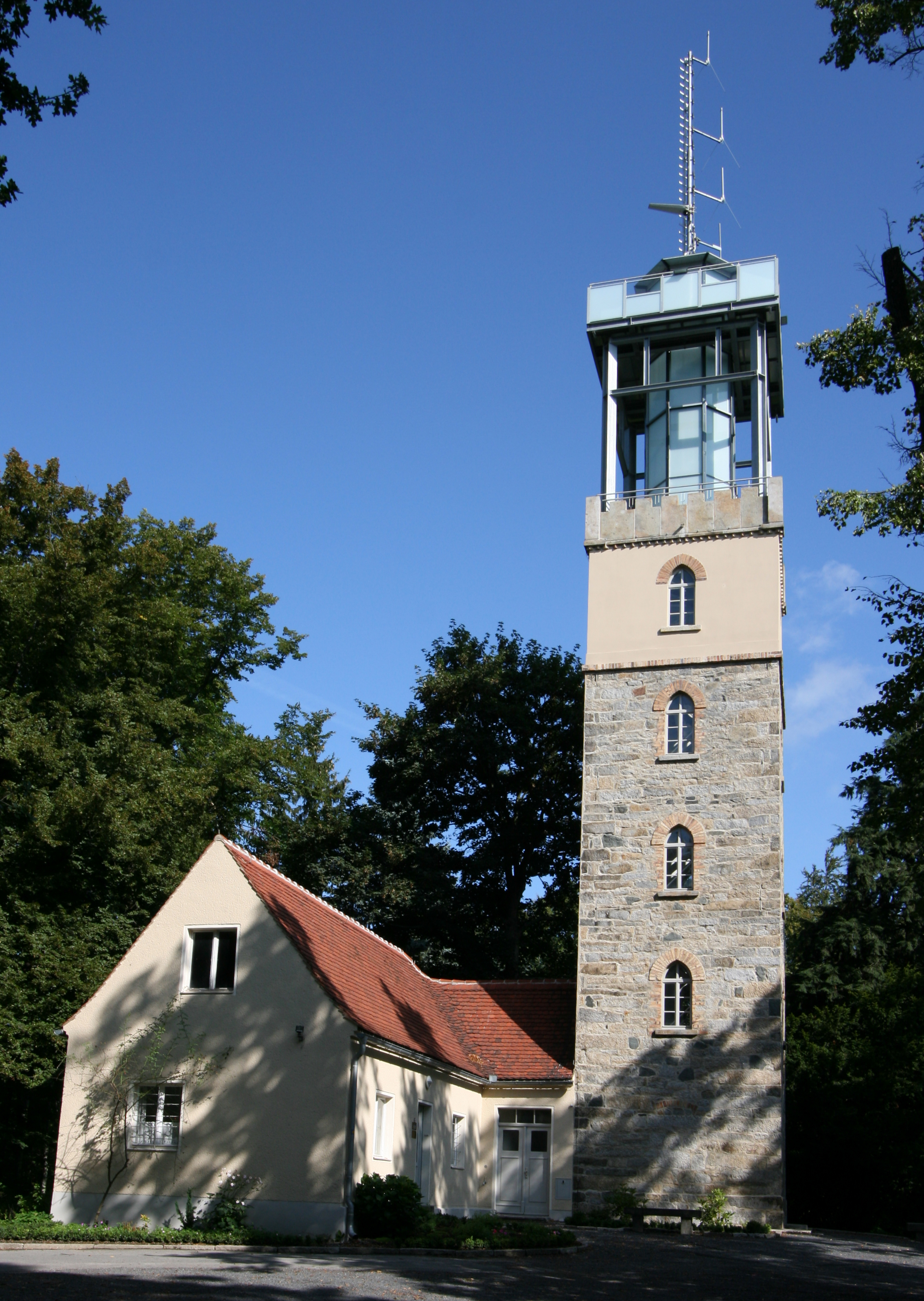 Kamenz (Germany, Saxony), tower Lessingturm after modification in 2010